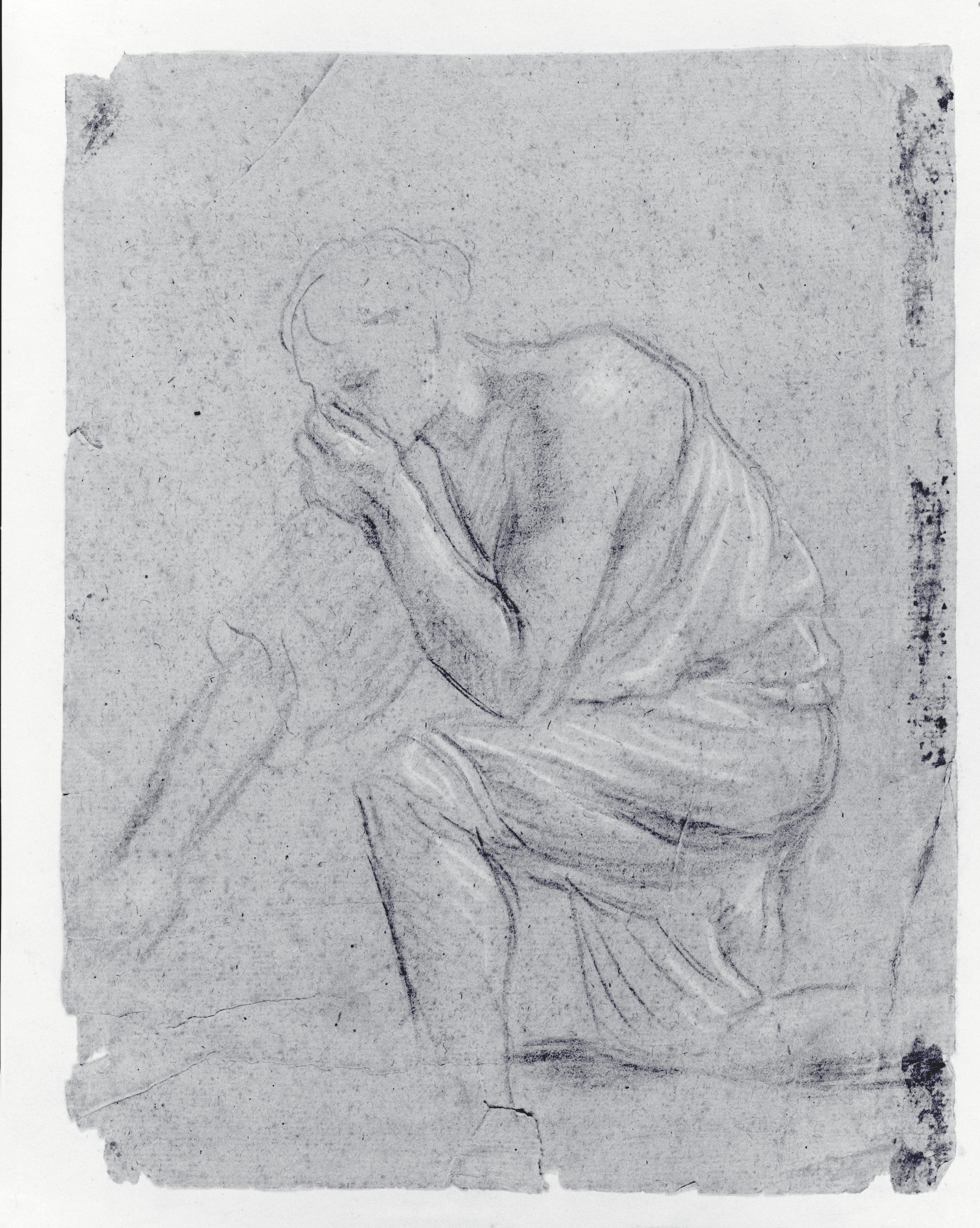 A man holding his nose to avoid breathing in a miasma. Drawing. Iconographic Collections Keywords: 17th century; miasma; wildcat 39050